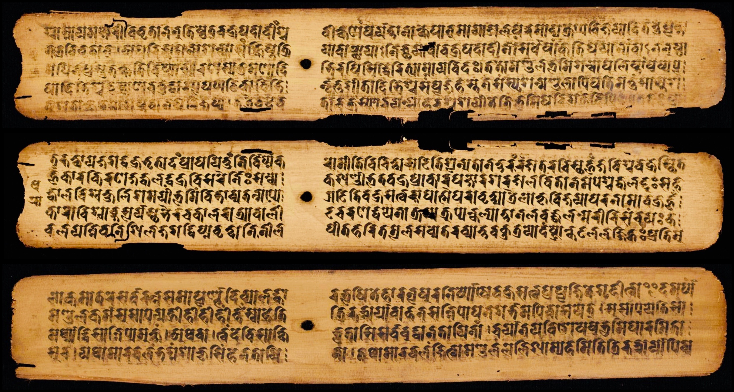 A few pages from the Vajrāvalī Buddhist text, a ritual compendium compiled by the Vikramashila monastery around 1100 CE, by the abbot Abhayakaragupta. This text is one of the largest compendium on tantric Buddhism. It has extensive discussions on various rituals and ceremonies within a Buddhist monastery. Cecil Bendall purchased this manuscript in February 1898–9 in Nepal. The manuscript is now preserved as MS Or.154 at the Cambridge University LIbrary. Language: Sanskrit Script: Nepalaksara The photo above is of a 2D manuscript artwork created about 900 years ago, itself a copy from a text that was authored earlier. The artwork and this 2D photograph, therefore, fall under Wikimedia Commons PD-Art licensing guidelines. Any rights I have as a photographer is herewith donated to wikimedia commons under CC 4.0 license.